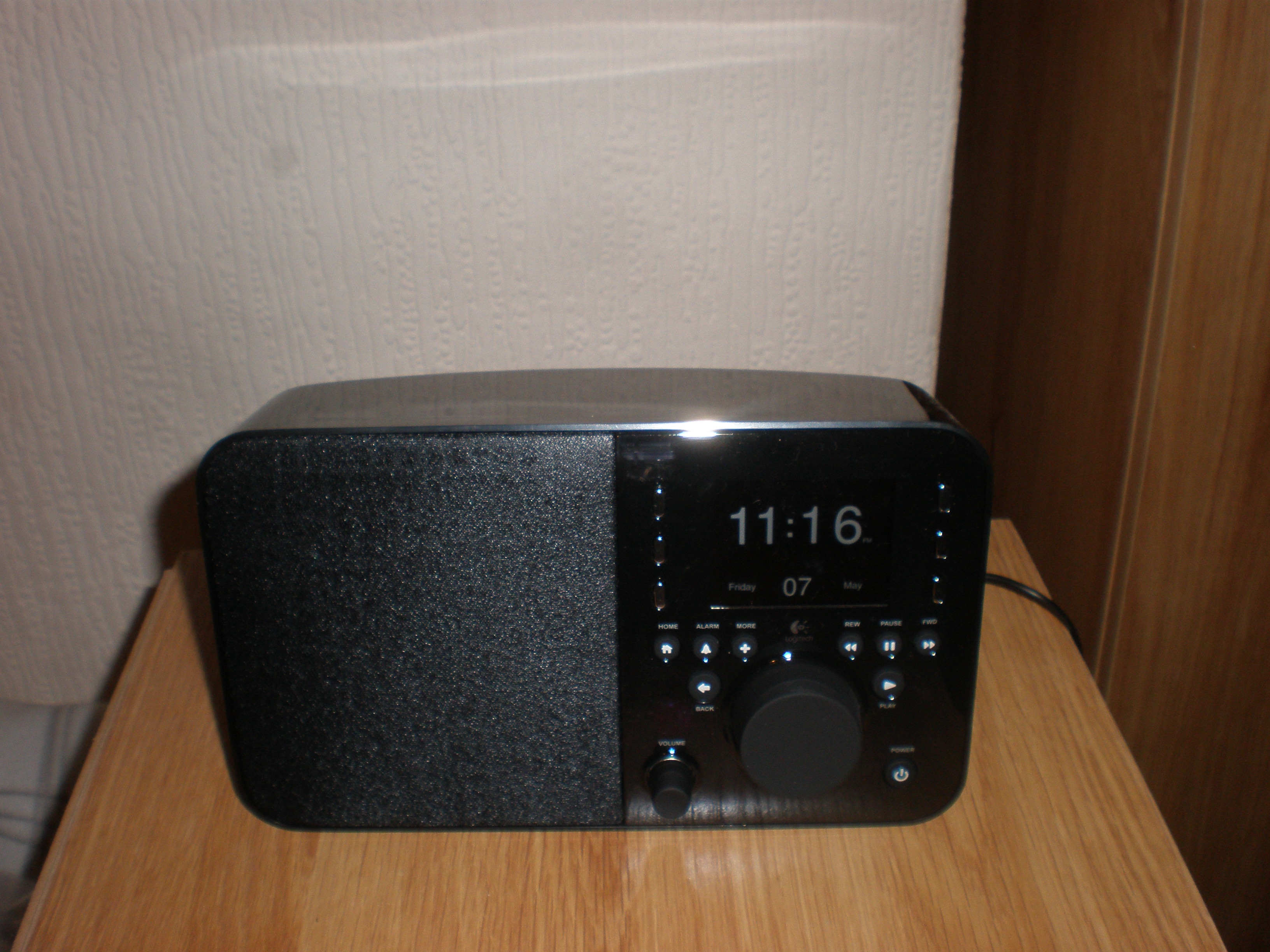 Image of a Squeezebox Radio